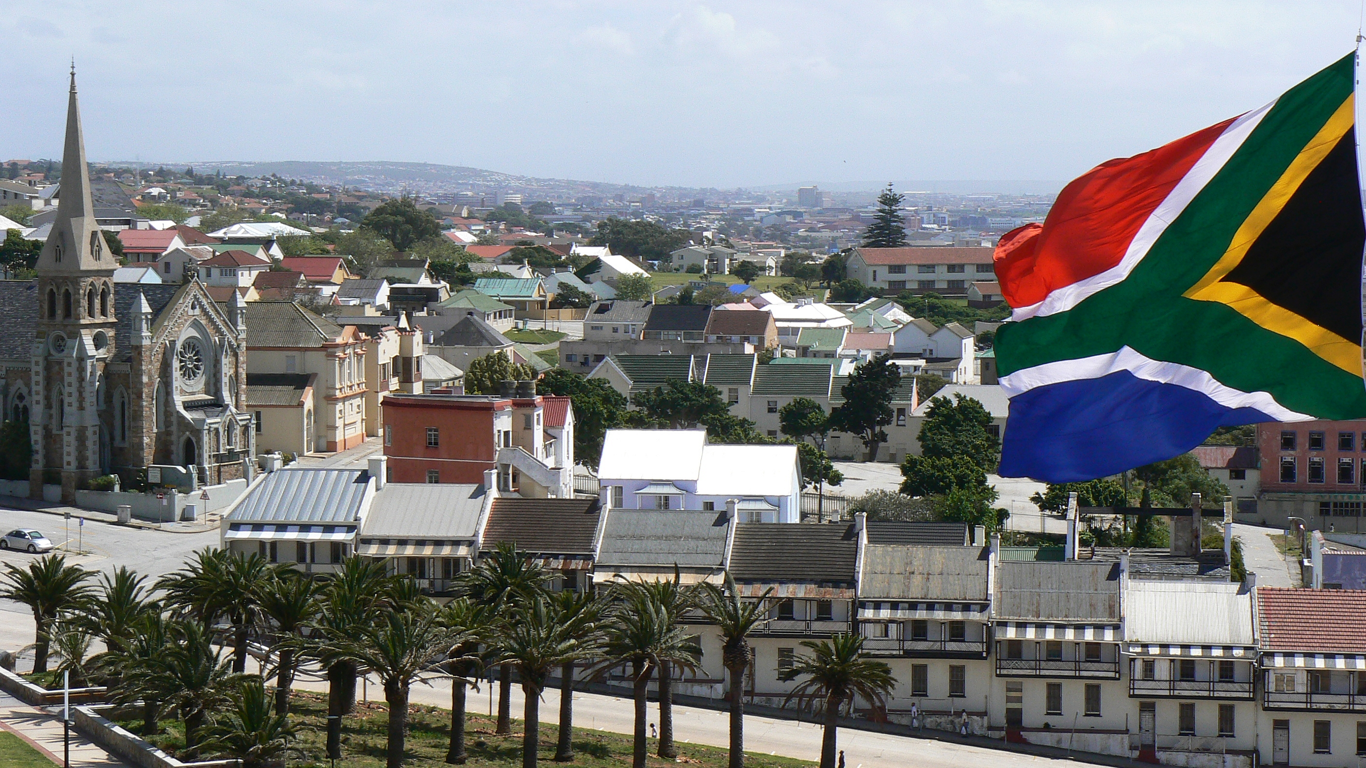 Donkin Terrace as seen from the lighthouse on the Donkin Reserve, Central, Port Elizabeth, South Africa. This media shows a South African Protected Site with SAHRA file reference 9/2/073/0024.